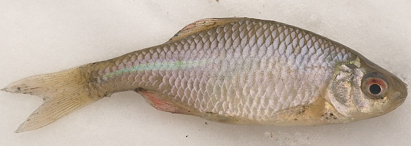 European bitterling, male